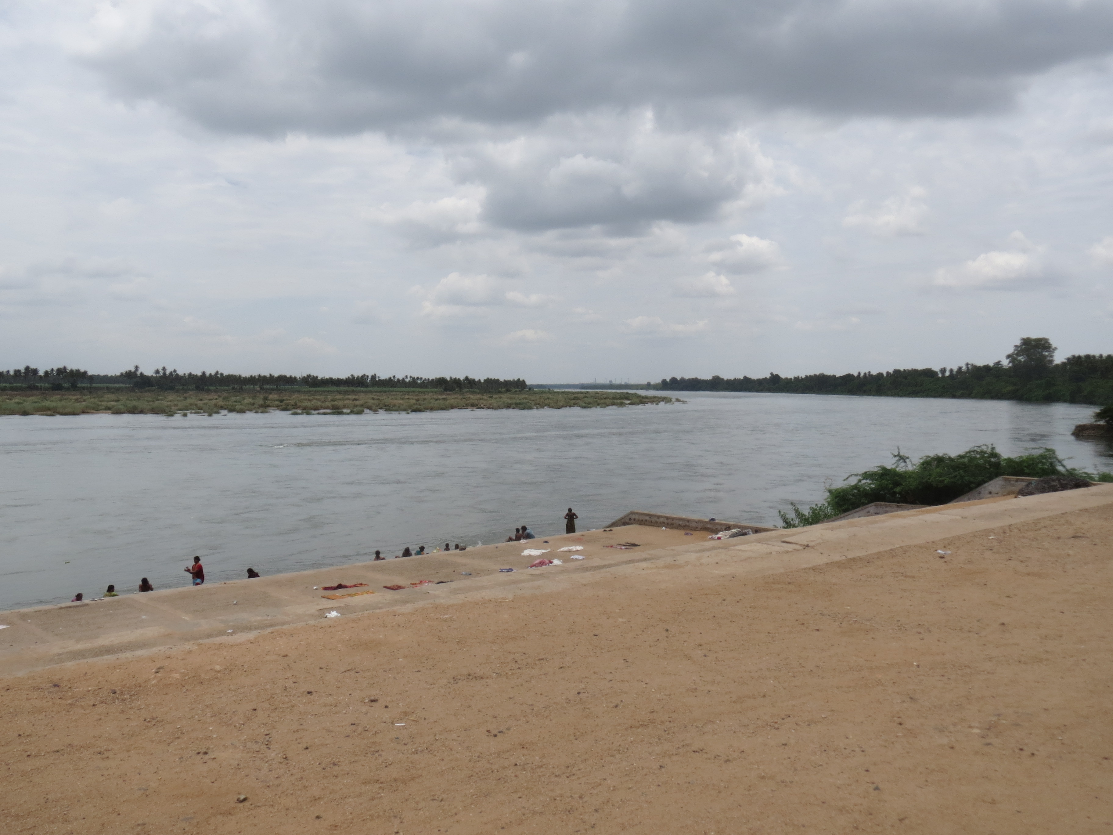 View of river cavery -Kodumudi Mahudeswarar temple